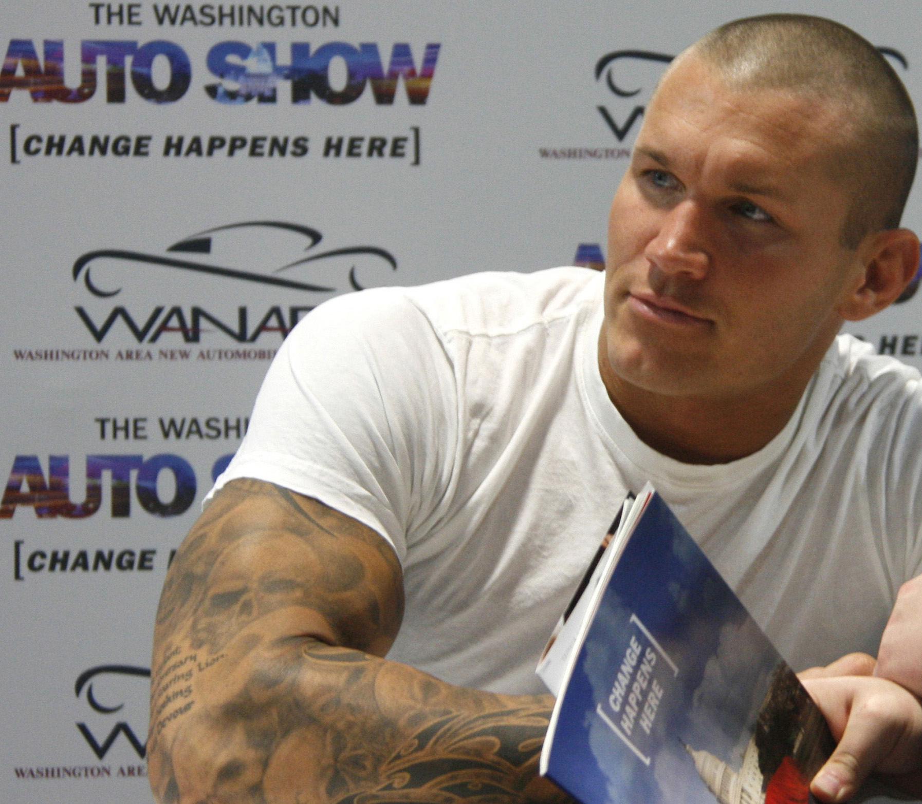 Randy Orton, a professional wrestler currently signed to World Wrestling Entertainment (WWE), at the 2010 Washington Auto Show, Walter E. Washington Convention Center, in Washington, D.C.